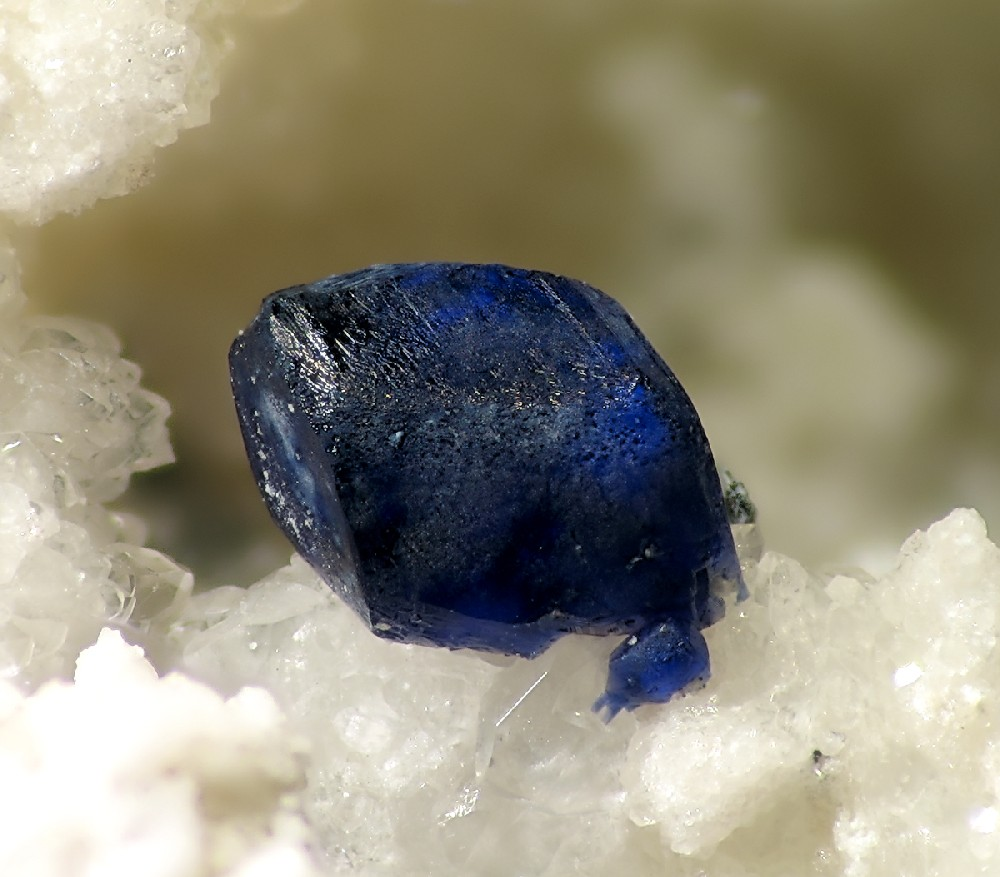 Henmilite Locality: Fuka mine, Bitchu-cho (Bicchu-cho), Takahashi, Okayama Prefecture, Chugoku Region, Honshu Island, Japan (Locality at ) Field of view 3 mm. Christian Rewitzer specimen and photograph